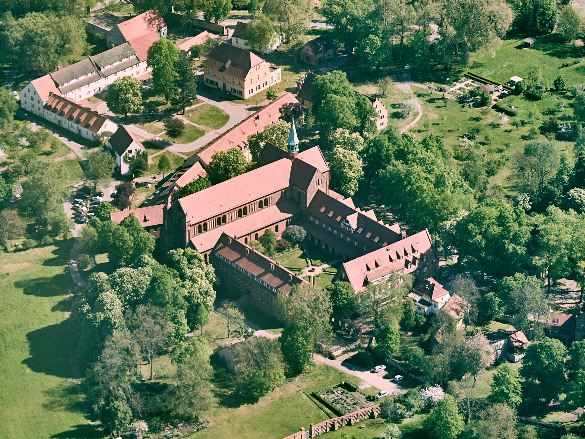 Aerial photo of Lehnin Abbey courtyard and St. Marien church